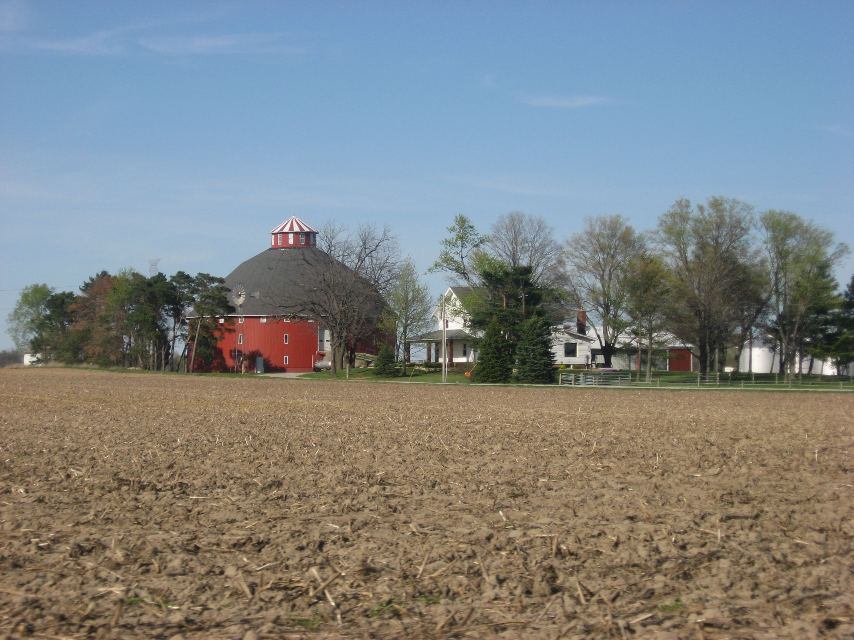 View from the southwest of the Frank Littleton Round Barn and associated farm buildings, located at 4682 W600N north of south of Mount Comfort in Vernon Township, Hancock County, Indiana, United States. Built in 1903, it is listed on the National Register of Historic Places.